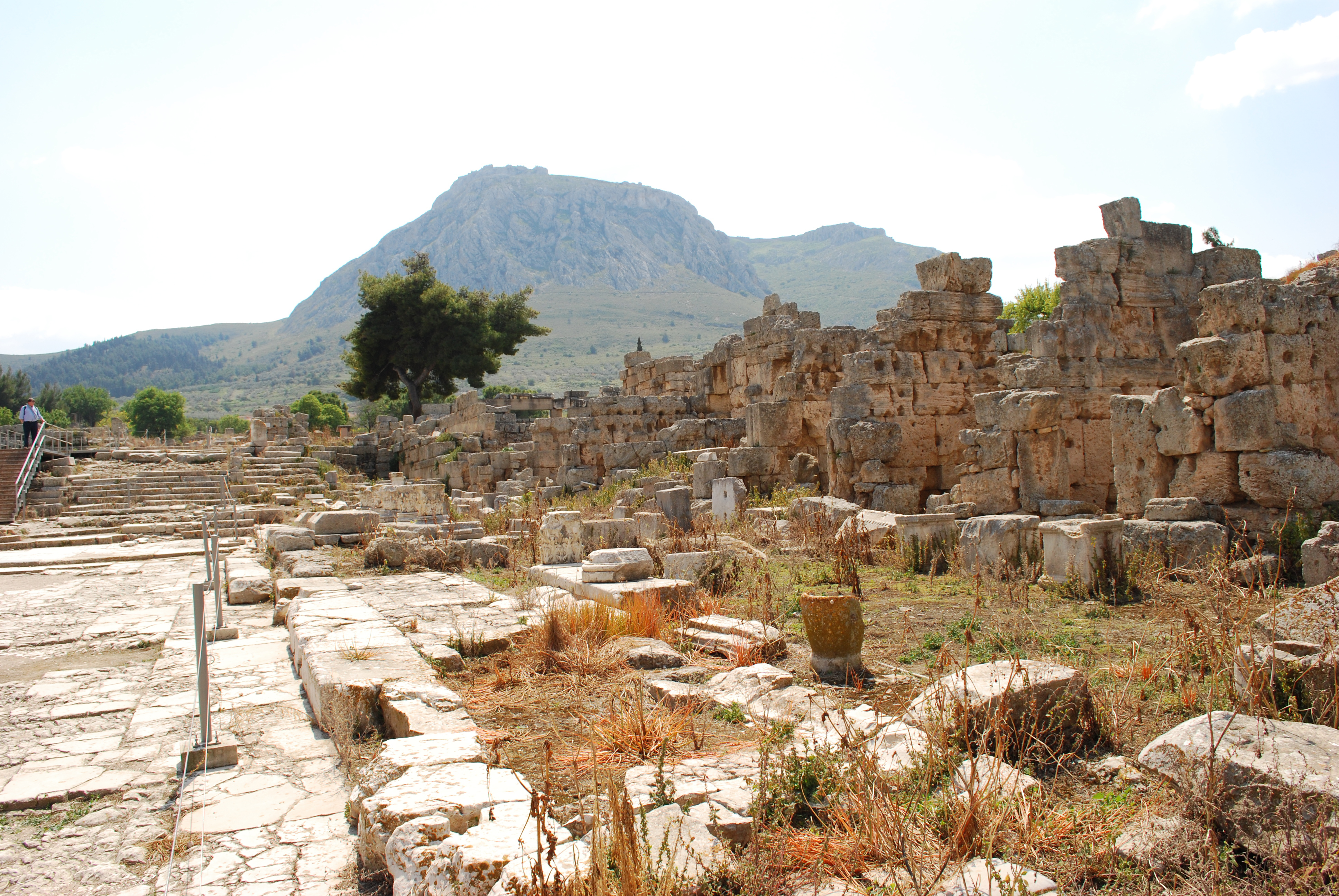 Lechaion Road in Ancient Corinth.